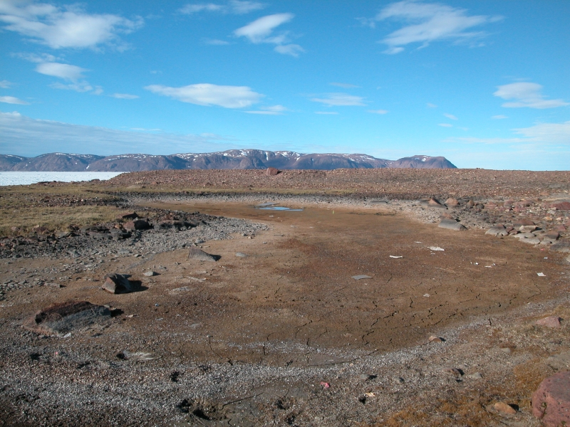 This is an image of a high Arctic pond, taken on a scientific expedition in 2006 at Cape Herschel on Ellesmere Island in northeastern Canada. Despite being filled with water for at least several thousand years, many of these ponds have desiccated since 1982, probably due to global warming. More information on this can be found at